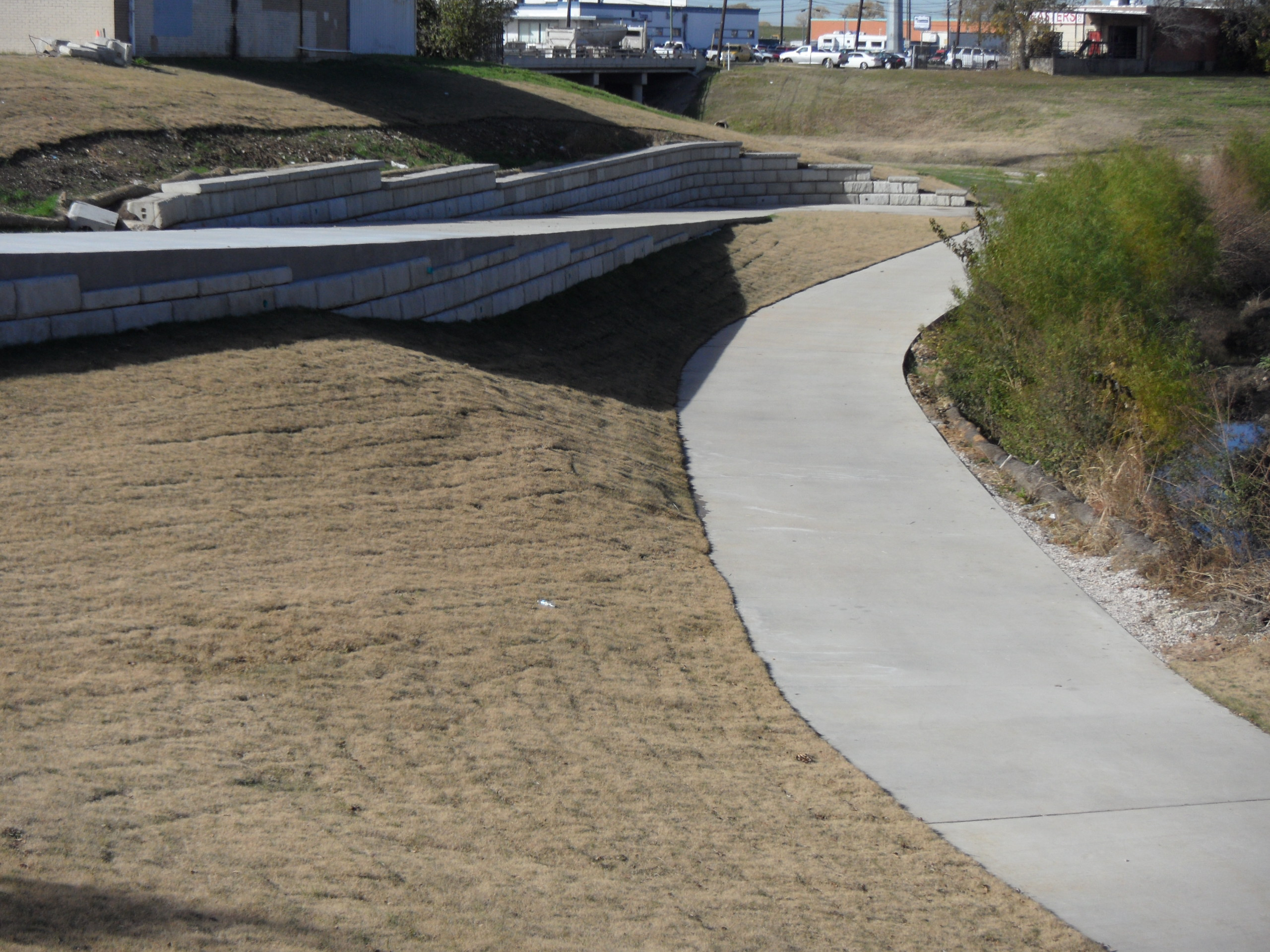 Trinity Strand Trail in Dallas, Texas